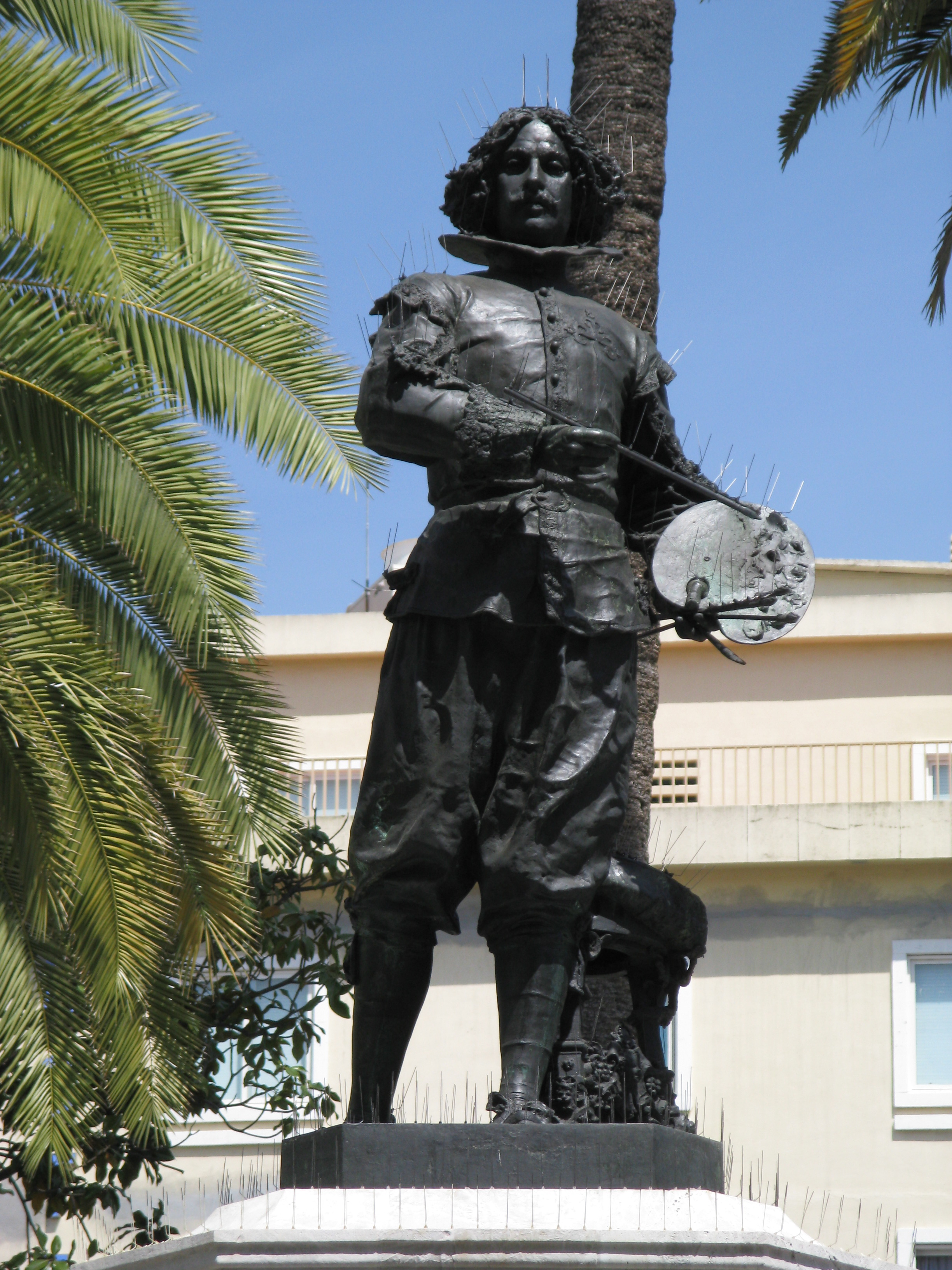 Statue of Diego Velázquez by Antonio Susillo in Seville.